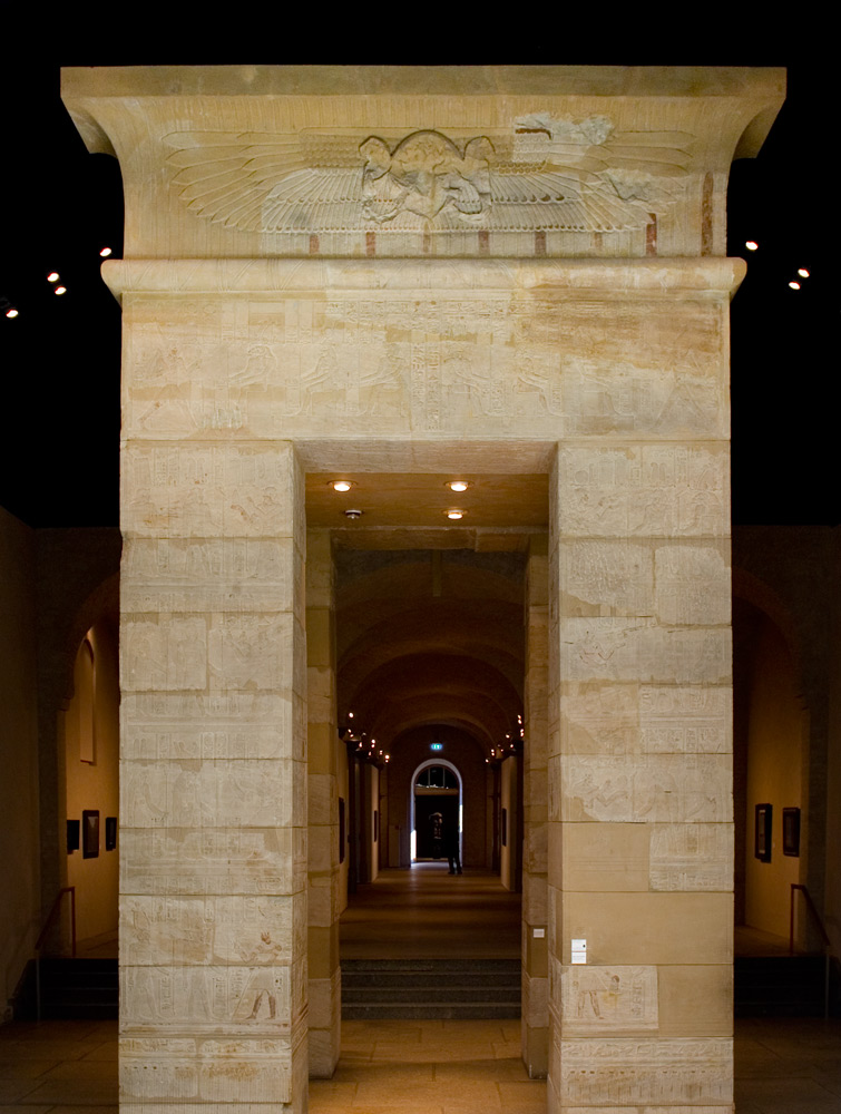 Palace Gate of Kalabsha in east Stülerbau/Marstall, Berlin-Charlottenburg